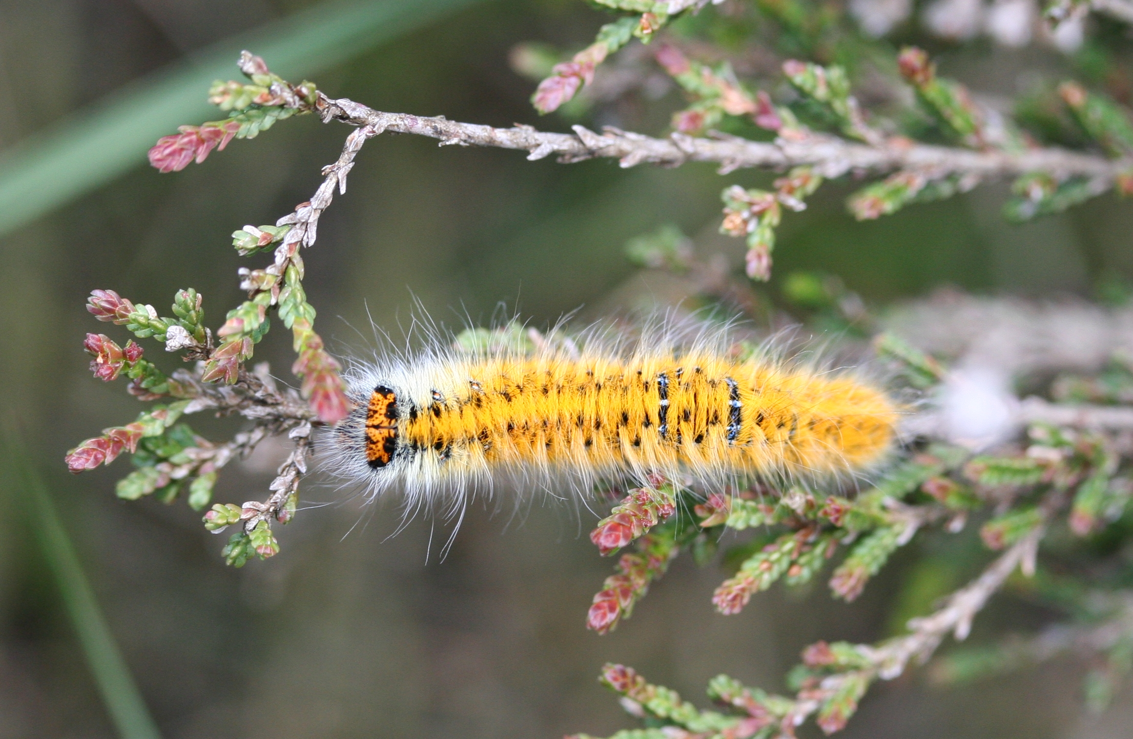 Lasiocampa_trifolii 5 June 2006 Ermelo, the Netherlands